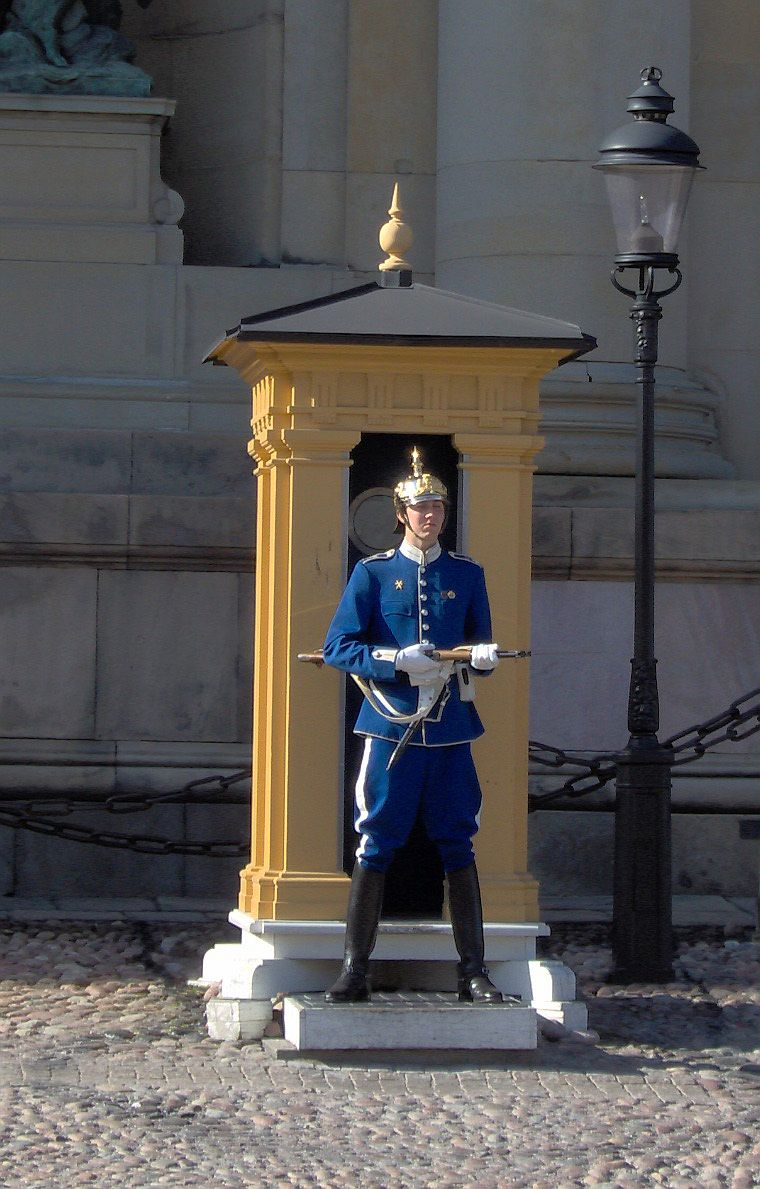 Guard at Royal Palace, Stockholm Castle, Sweden. 2006.